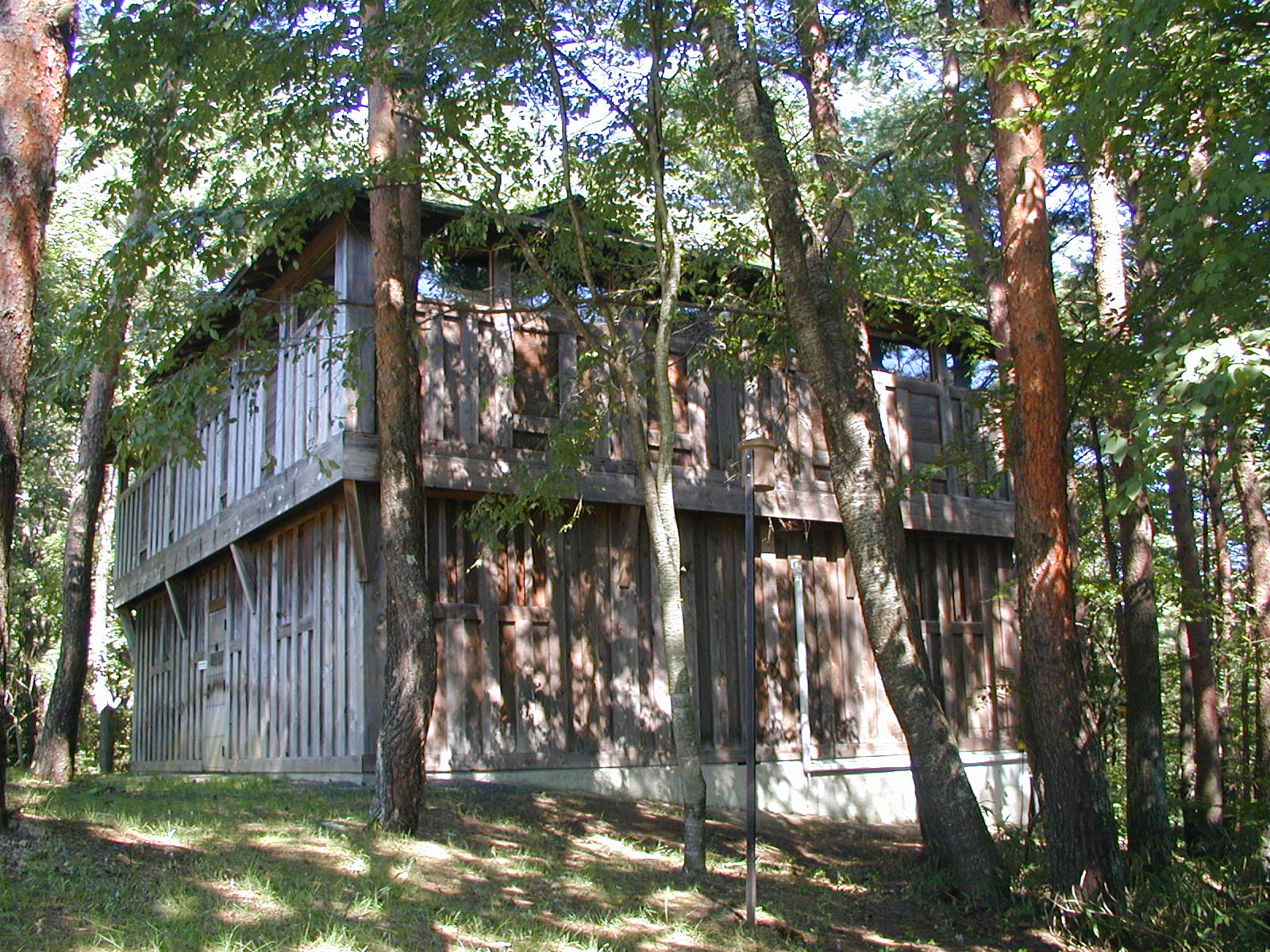 Plymouth House in Shichigahama, built like the Plimoth Plantation fort and meeting house, is a museum of history on Pilgrim Fathers and Takayama Summer Resort for non-Japanese.